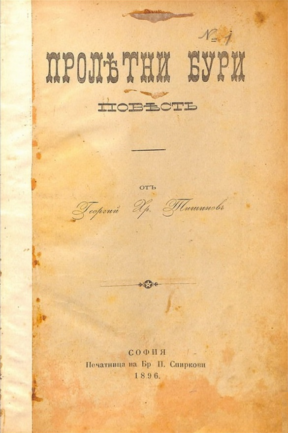 Proletni Buri